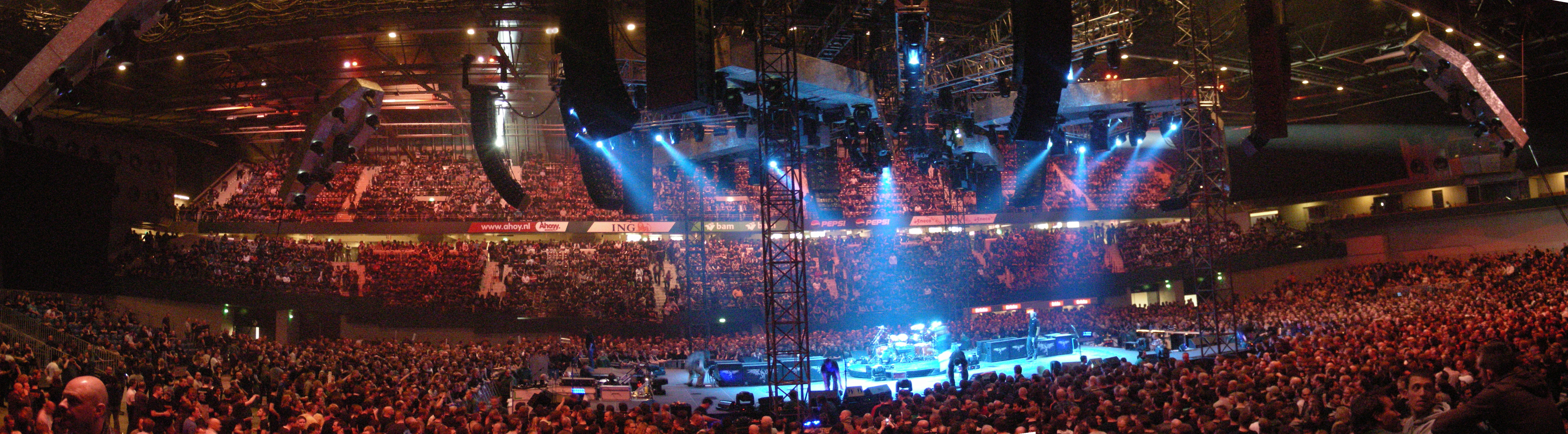 Panorama of Ahoy Rotterdam at Metallica concert on 2009-03-30 (Death Magnetic Tour, Ahoy Rotterdam)